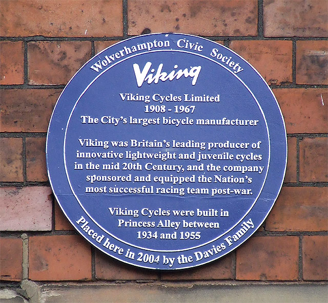 Plaque - Viking Cycles Limited, Wolverhampton The plaque presently can be seen above the Coral betting shop, which was Viking's shop and assembly premises from 1934. In 1935 they obtained a small premises a few metres down the adjacent Princess Alley, where they could also manufacture their own frames, so the shop became the show-room.